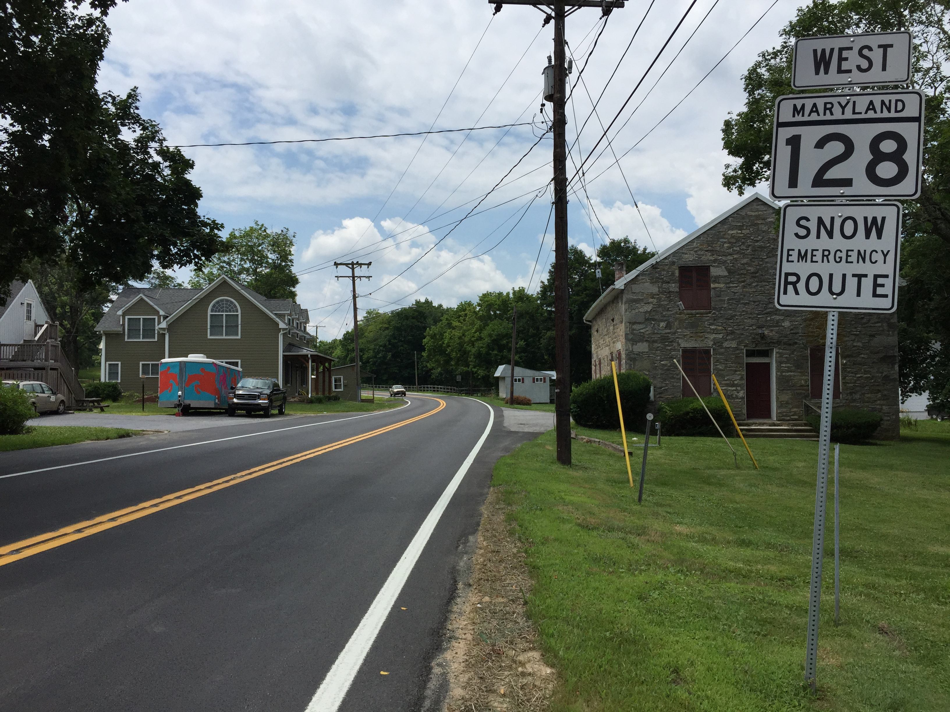 View west along Maryland State Route 128 (Butler Road) at Maryland State Route 25 (Falls Road) in Butler, Baltimore County, Maryland